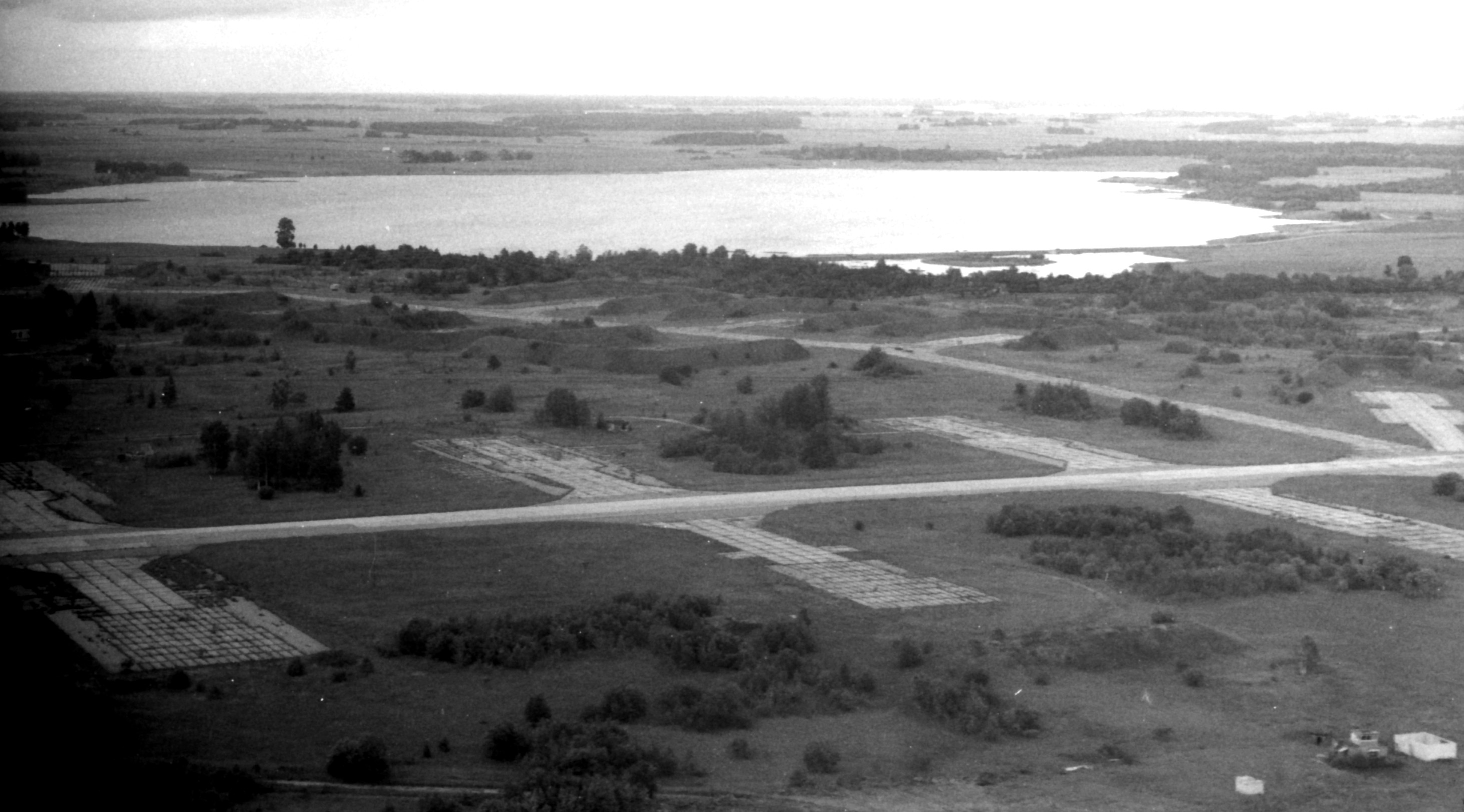 Zokniai and lake Gudeliai in Šiauliai, Lithuania